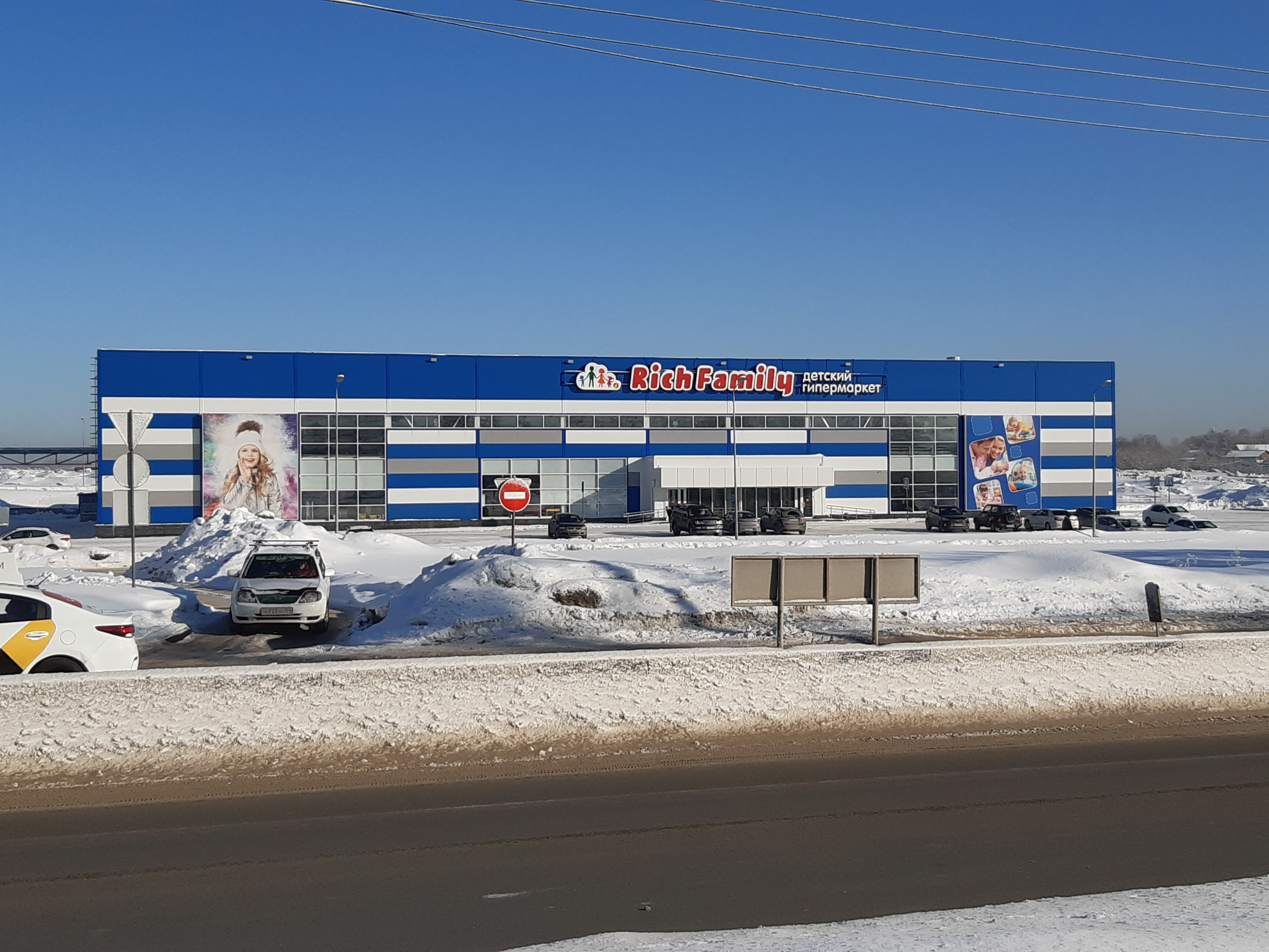 Rich Family in Zayeltsovsky District of Novosibirsk. It is a chain of children's stores, based in Novosibibirsk in 2002.